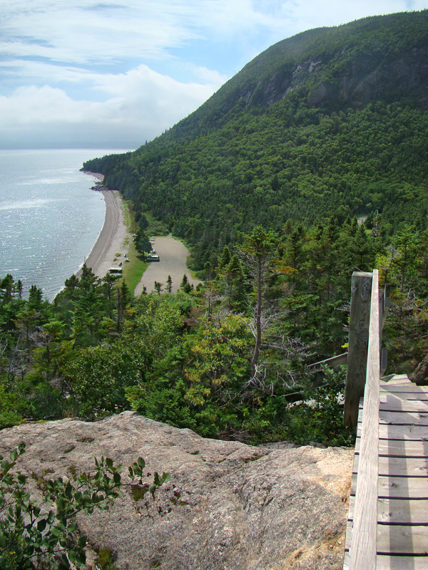 Blow Me Down Provincial Park, on the southern shore of the Humber Arm, Western Newfoundland, Canada. Overlooking the Bay of Islands.